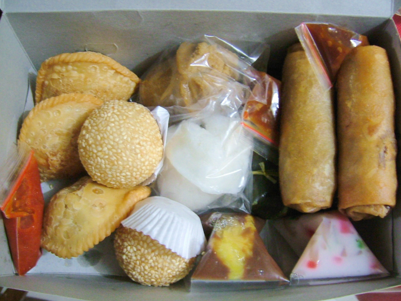 Snacks in Jakarta